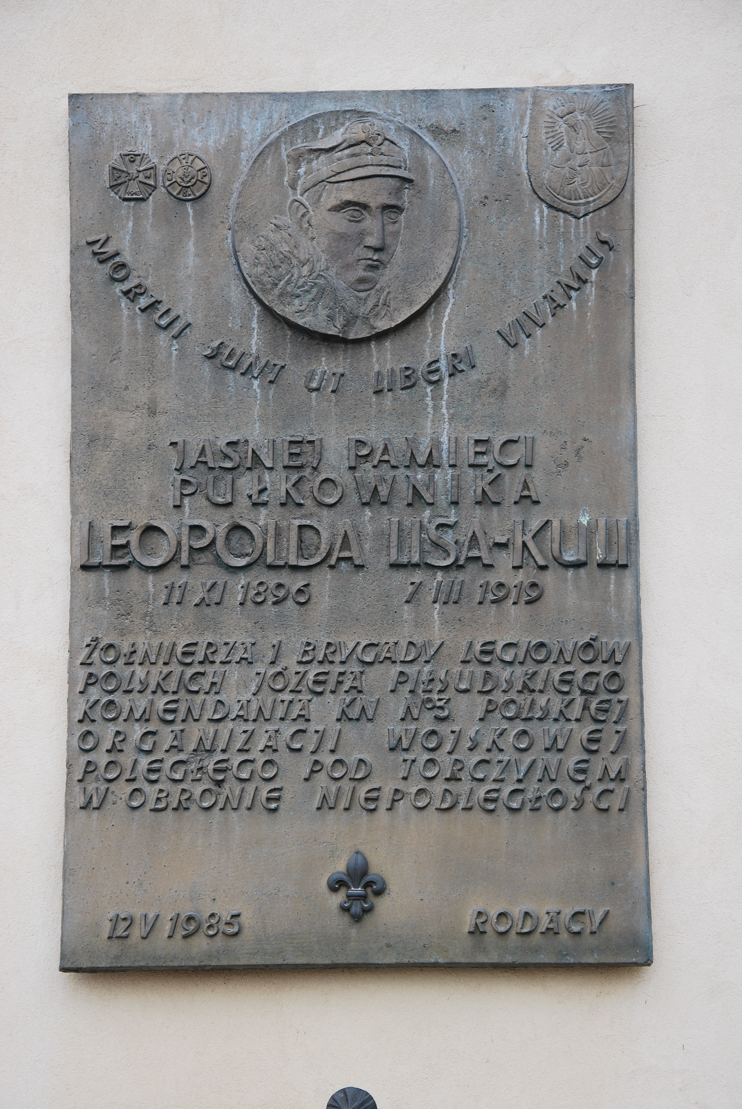 Plaque to Colonel Lis-Kula, Rzeszów